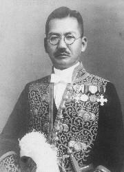 Shimane governor Masaki Fukumura